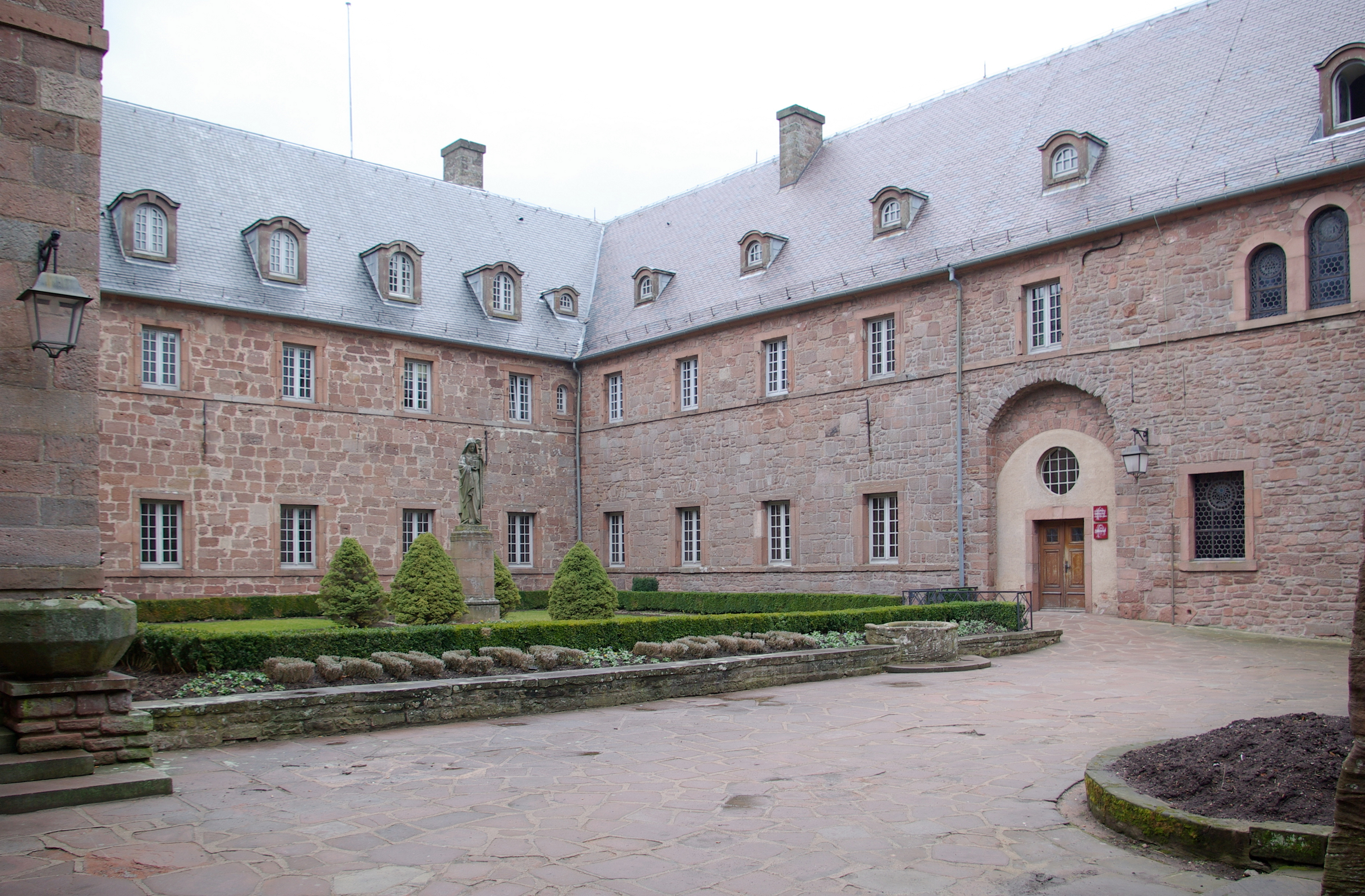 Mont Sainte-Odile